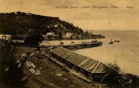 Vasco-da-Gama port c. 1890s